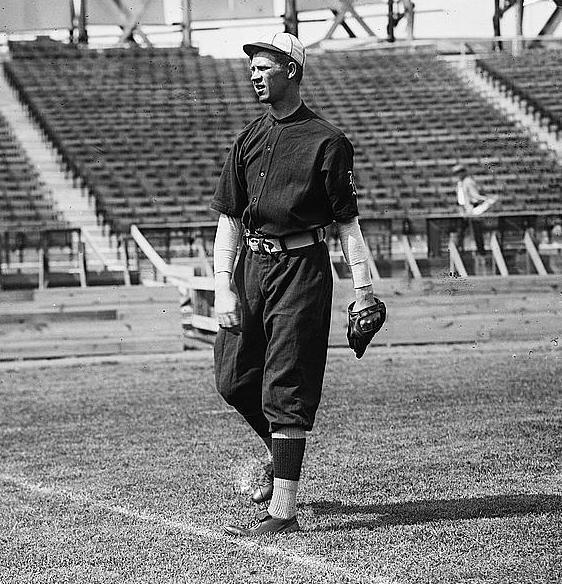 [Orlie Weaver, Boston, NL (baseball)] (LOC) Bain News Service,, publisher. Orlie Weaver, Boston, NL (baseball) in 1911 [1911] 1 negative : glass ; 5 x 7 in. or smaller. Notes: Original data provided by the Bain News Service on the negatives or caption cards: Weaver (Boston, N.). Corrected title and date based on research by the Pictorial History Committee, Society for American Baseball Research, 2006. Forms part of: George Grantham Bain Collection (Library of Congress). Subjects: Baseball Format: Glass negatives. Repository: Library of Congress, Prints and Photographs Division, Washington, D.C. 20540 USA, General information about the Bain Collection is available at Persistent URL: Call Number: LC-B2- 2244-2